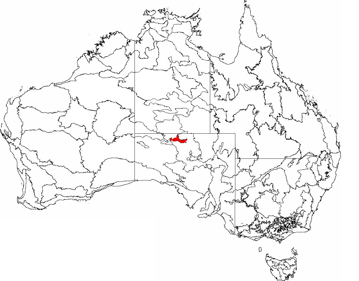 This is a map of the Interim Biogeographic Regionalisation of Australia (IBRA), with state boundaries overlaid. The Pedirka Desert region is shown in red.